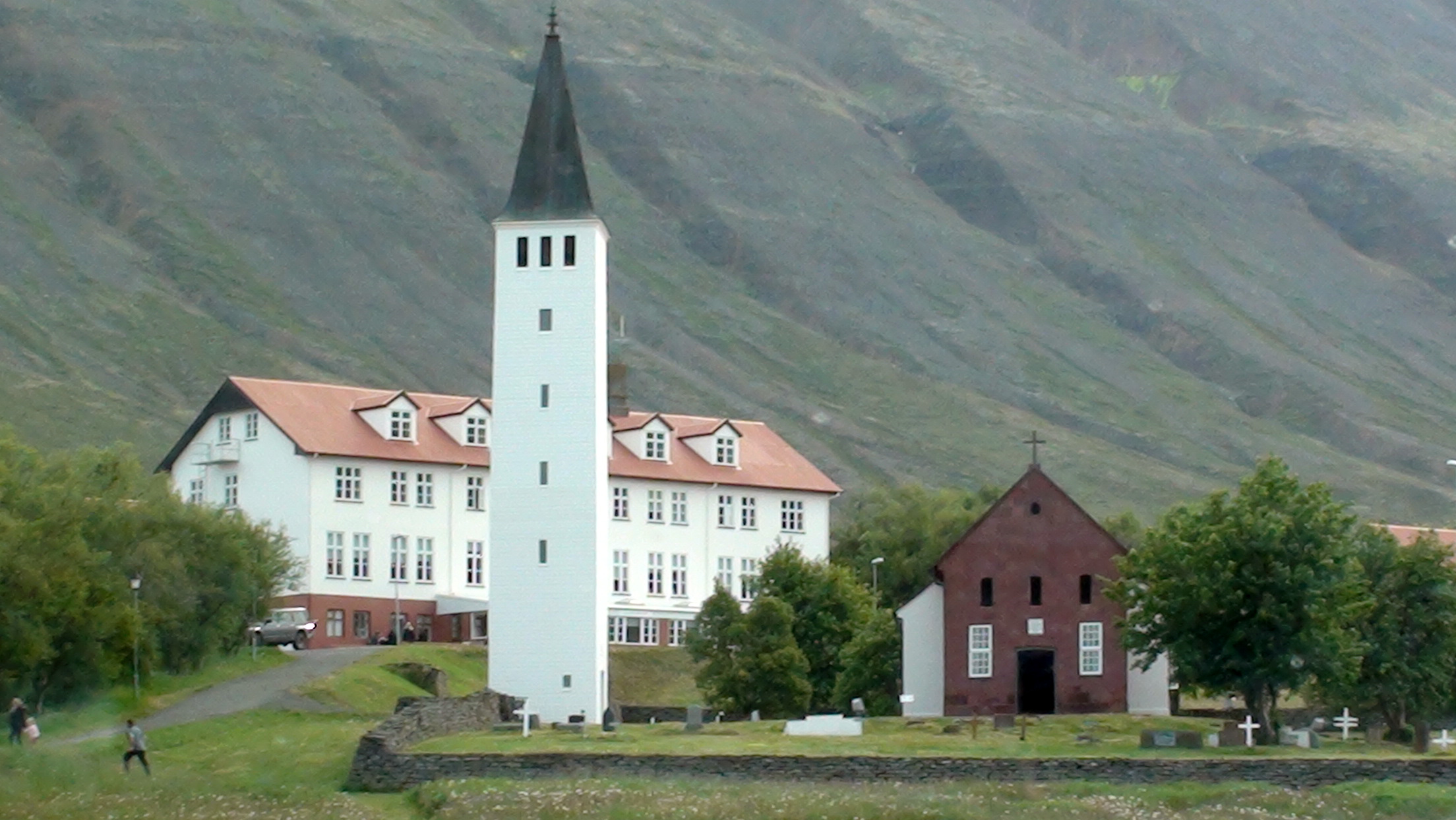 Photo of the church in Hólar, the small Icelandic community. In the background is the Hólar University College.